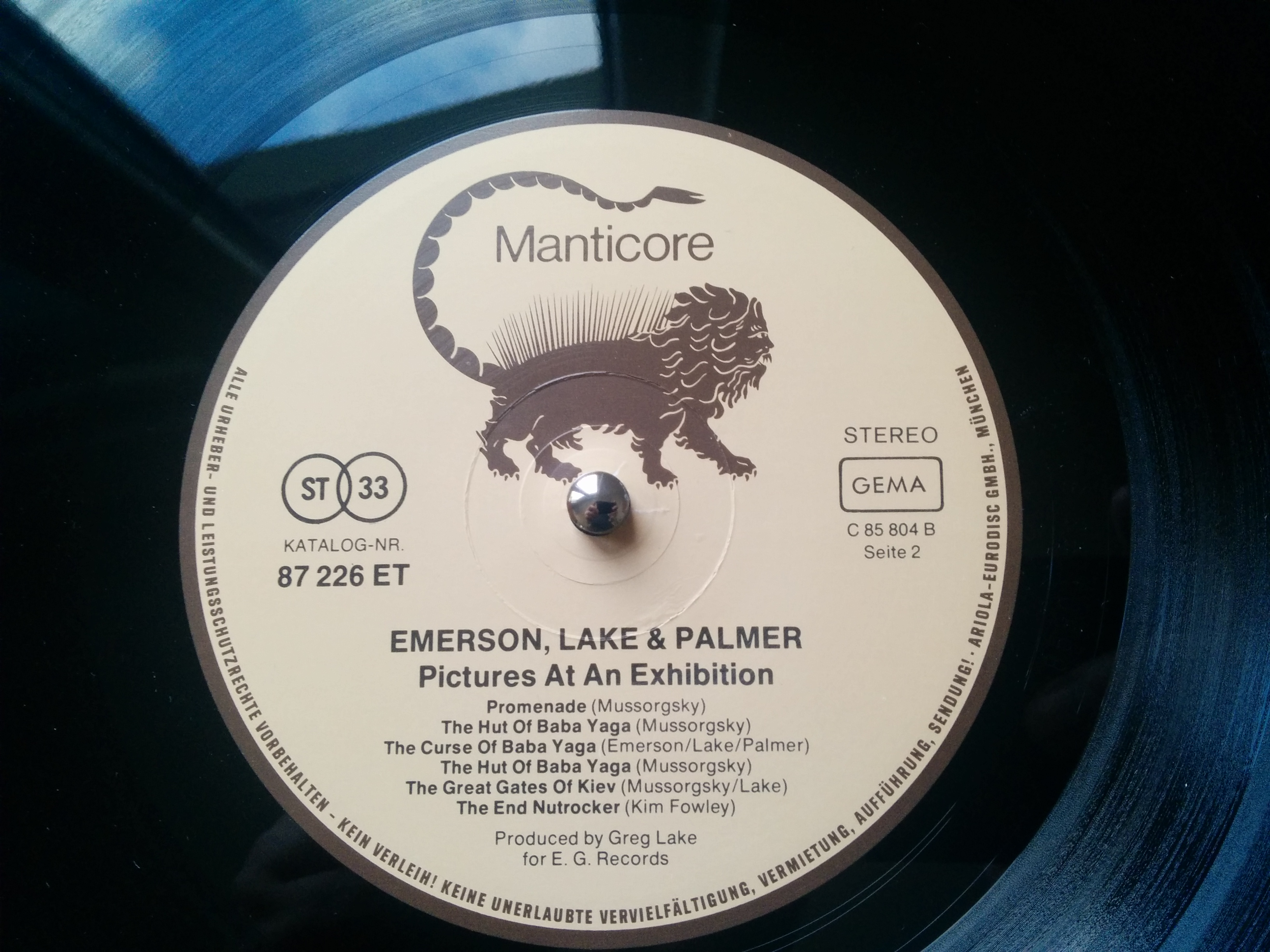 LP label of "Emerson, Lake and Palmer - Pictures at an Exhibition" with Manticore picture